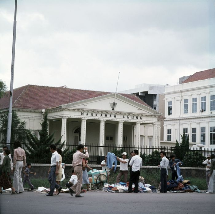 People selling clothes on the street in front of the Supreme Court